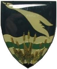 SADF era Griqualand East emblem